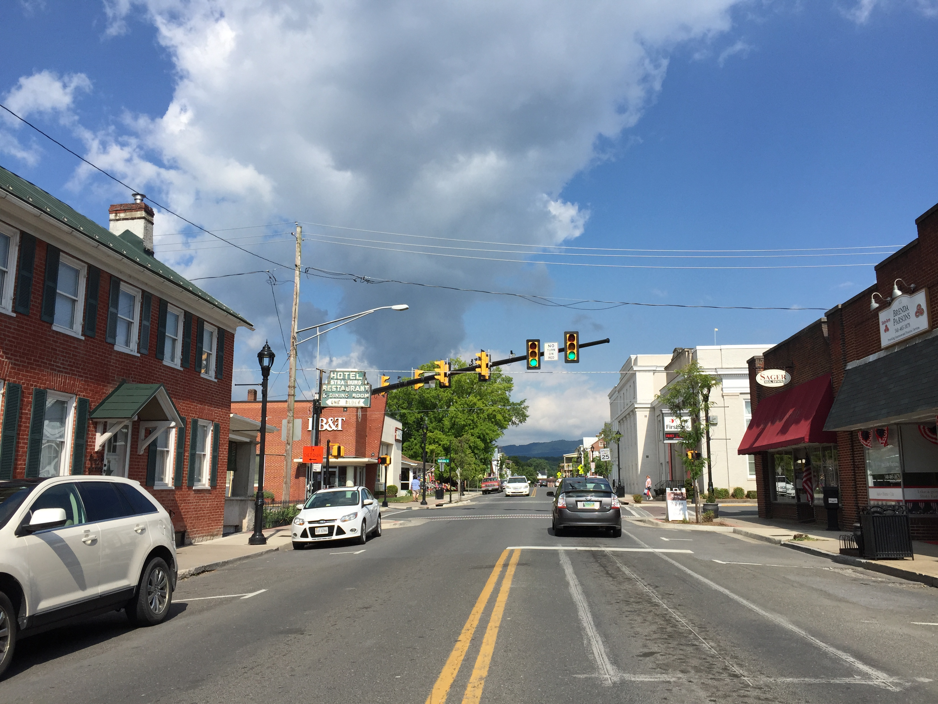 View south along U.S. Route 11 (King Street) at Holiday Street in Strasburg, Shenandoah County, Virginia